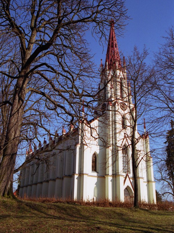 St Lawrence church in Chrastava, Liberec District, Czech Republic.